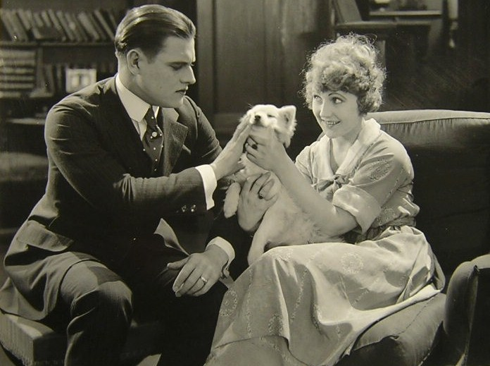 John Bowers and Barbara Castleton in Out of the Storm (1920) - publicity still (cropped)